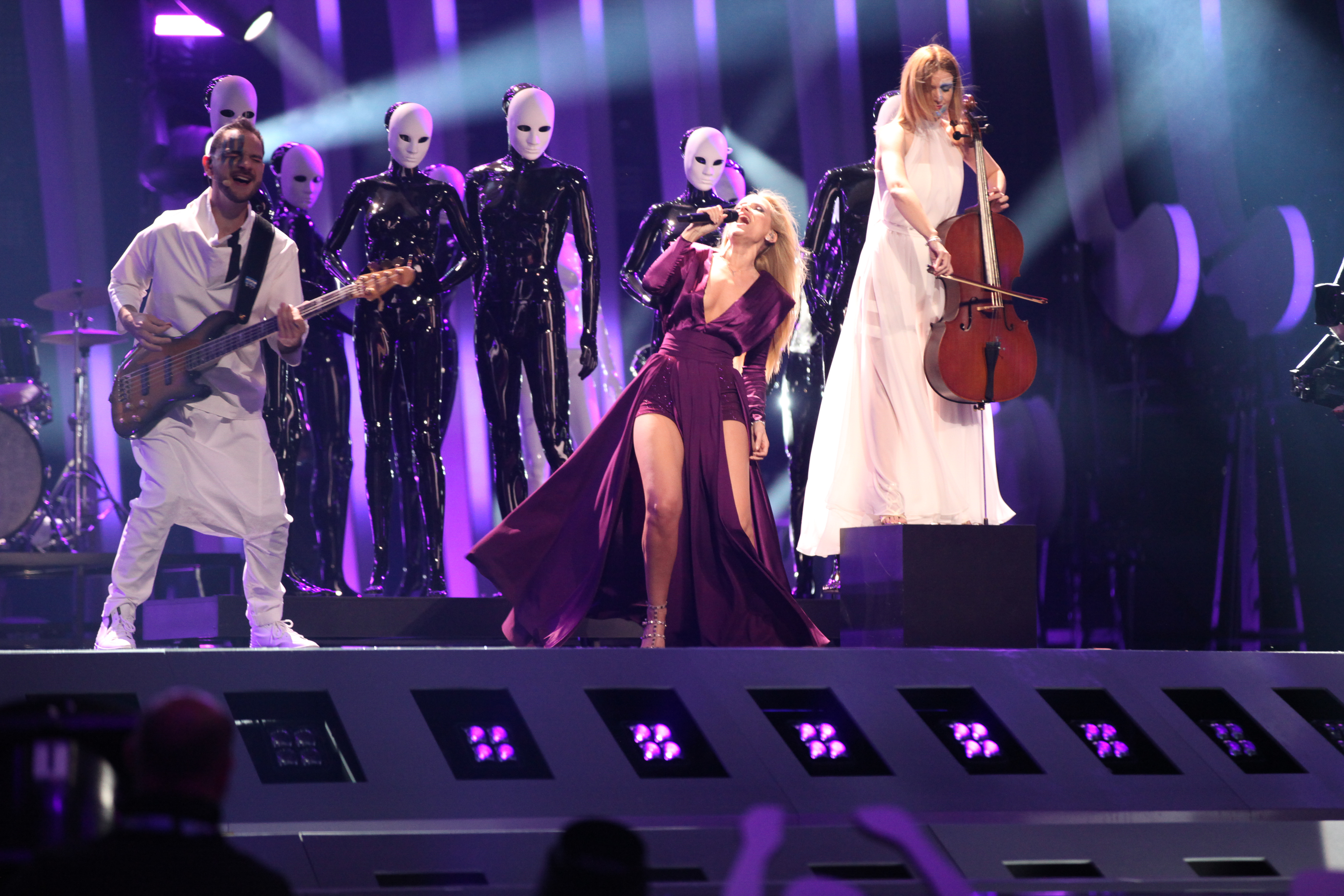 The Humans representing Romania with the song "Goodbye" during a rehearsal before the second semi final of the Eurovision Song Contest 2018 in Lisbon.